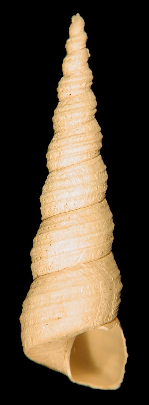 Turritella communis Risso, 1826; adult fossil specimen from a deep borehole in the Netherlands; Maassluis Formation, Age: Early Pleistocene (Tiglian/Pretiglian)